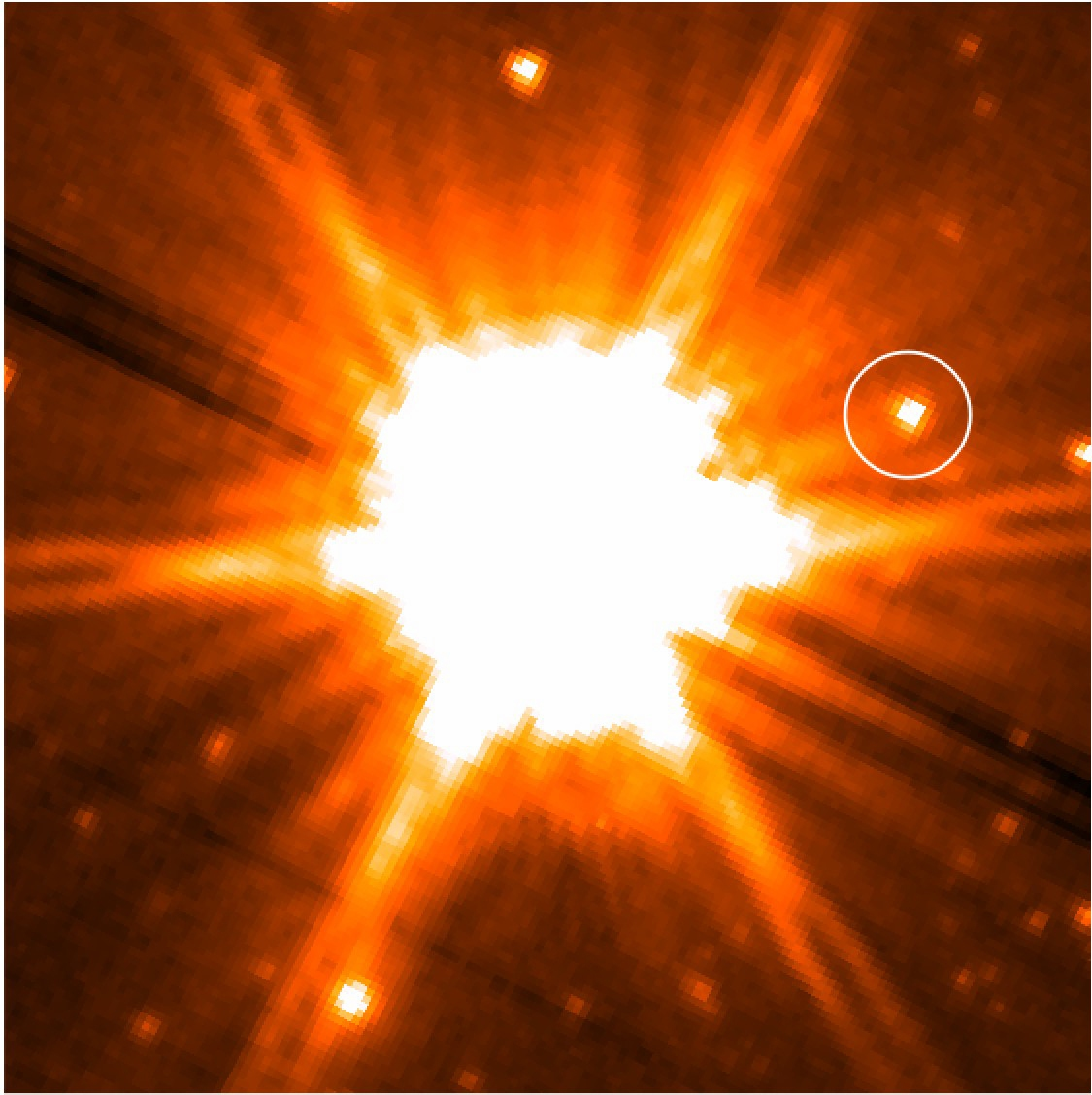 Using infrared photograph obtained with NASA's Spitzer Space Telescope, astronomers discovered a brown dwarf orbiting the star HD 3651.